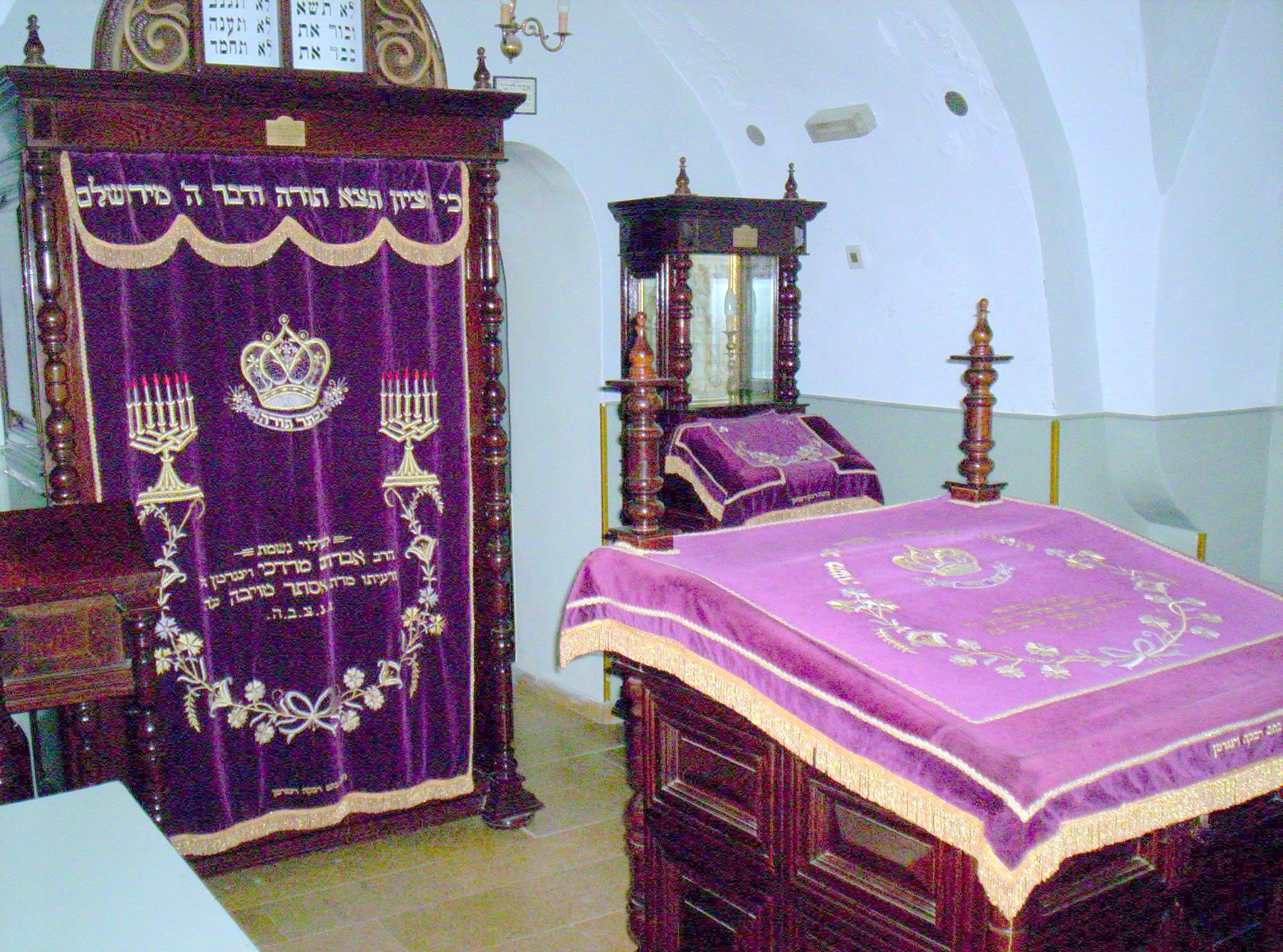 kabbalah, "Or Hachaim" Synagogue in Jerusalem, Or Chaim, 6 st